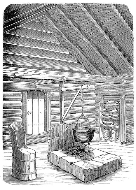 Open hearth in a 17th century log house from Setesdal Norway.